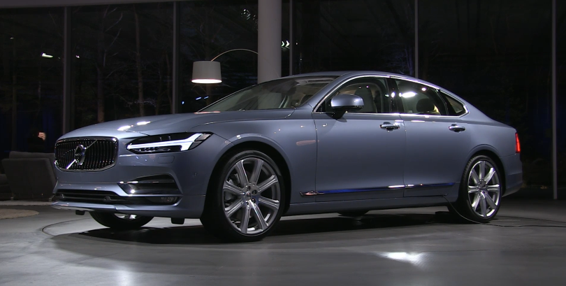 2016 Volvo S90 at Gothenburg